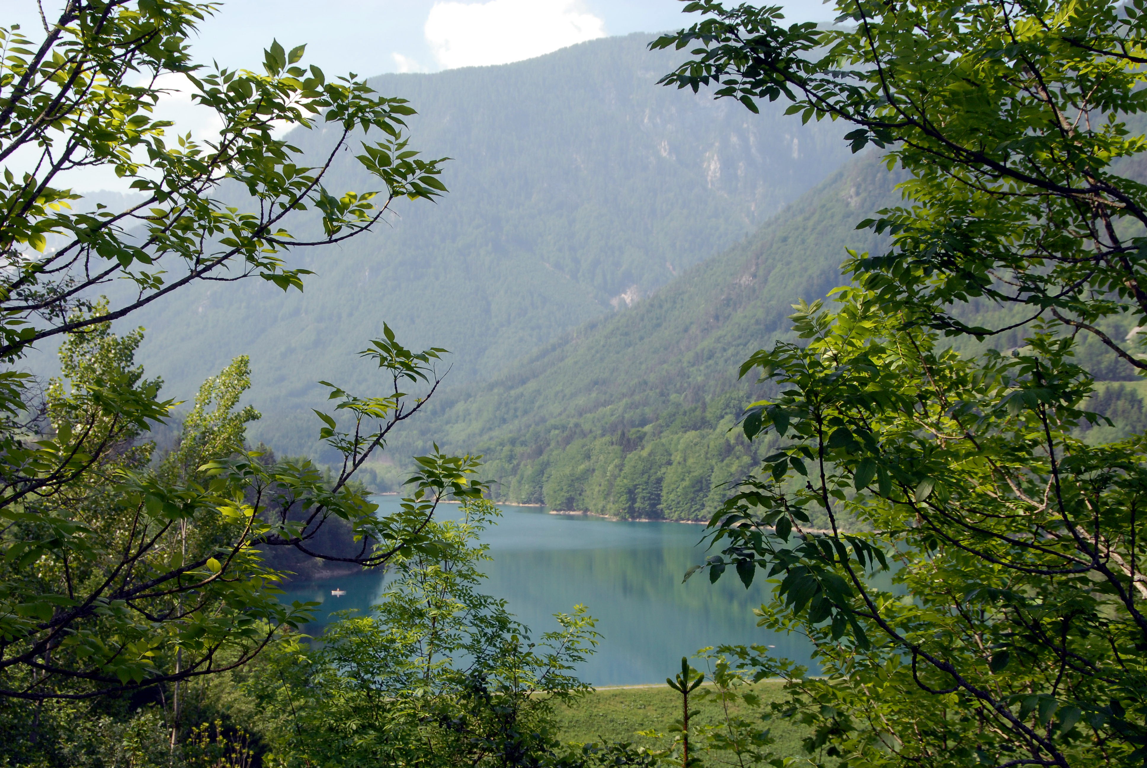 Freibach (Borovnica) reservoir in the bilingual community of Zell (Sele), Carinthia, Austria